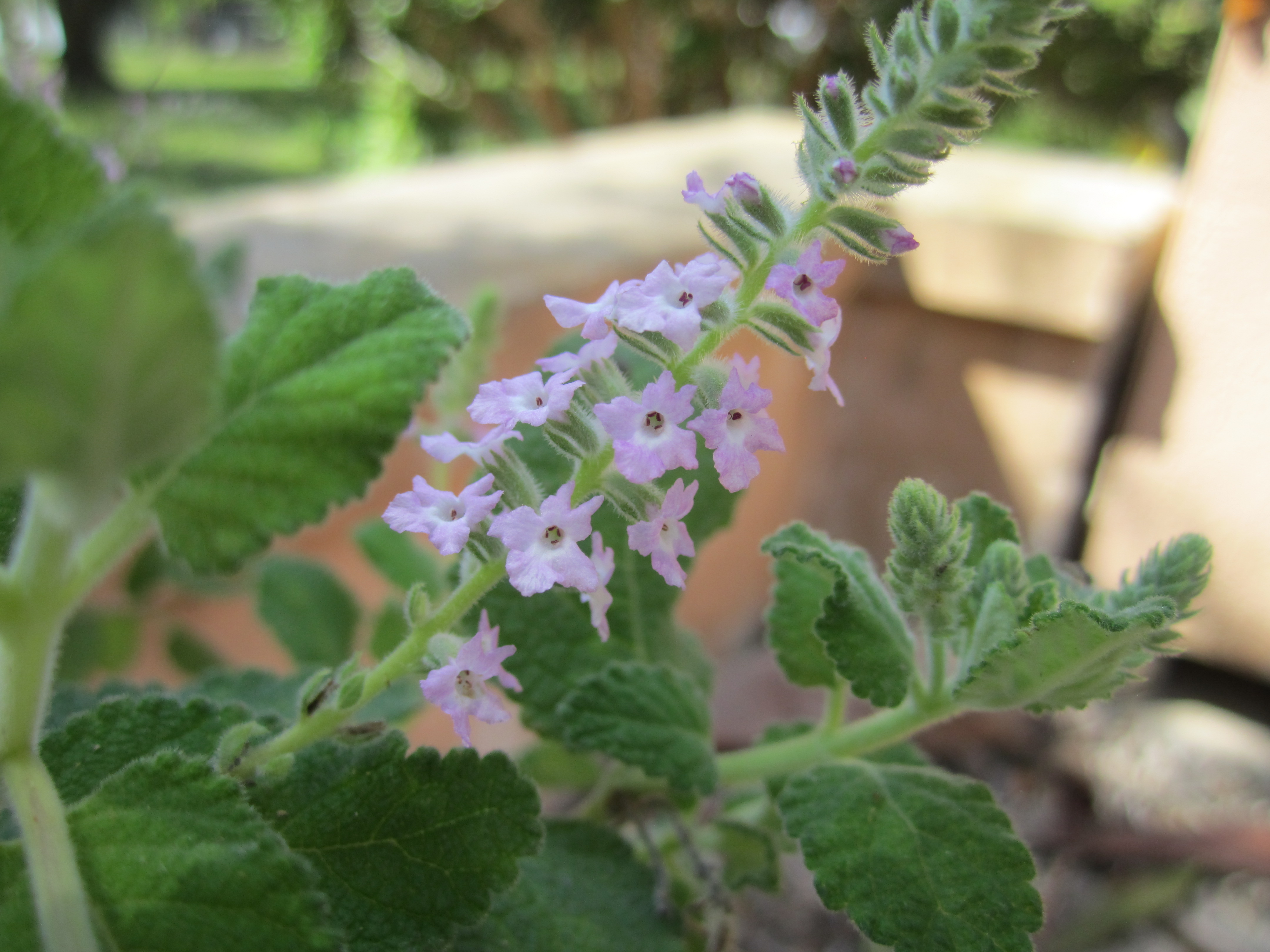 Inflorescence and leaves of a cultivated Aloysia macrostachya specimen.